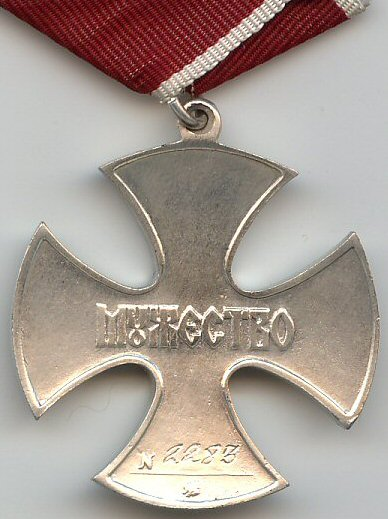 Reverse of the Russian Cross for Courage